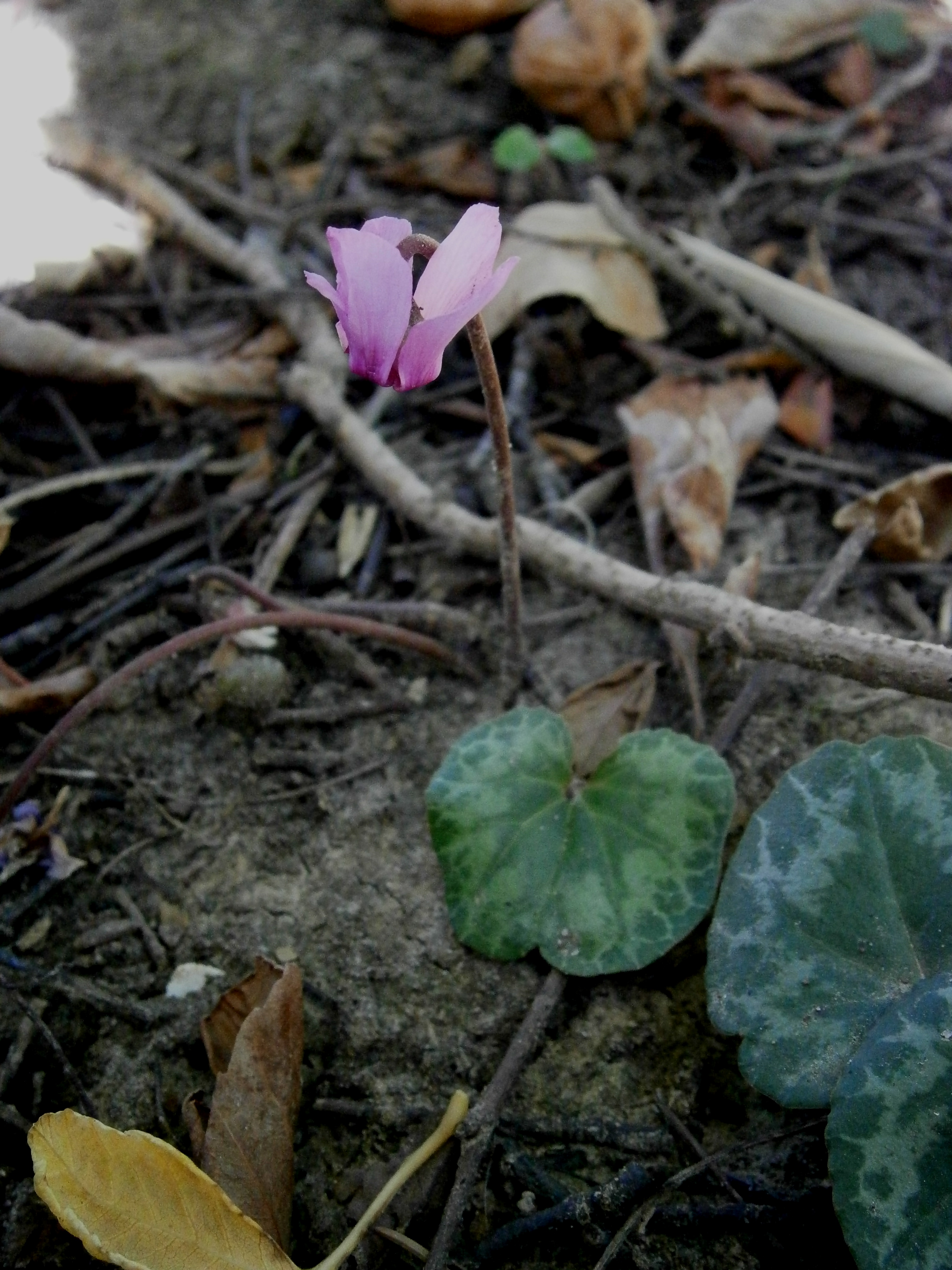 Cyclamen purpurascens in cultivation